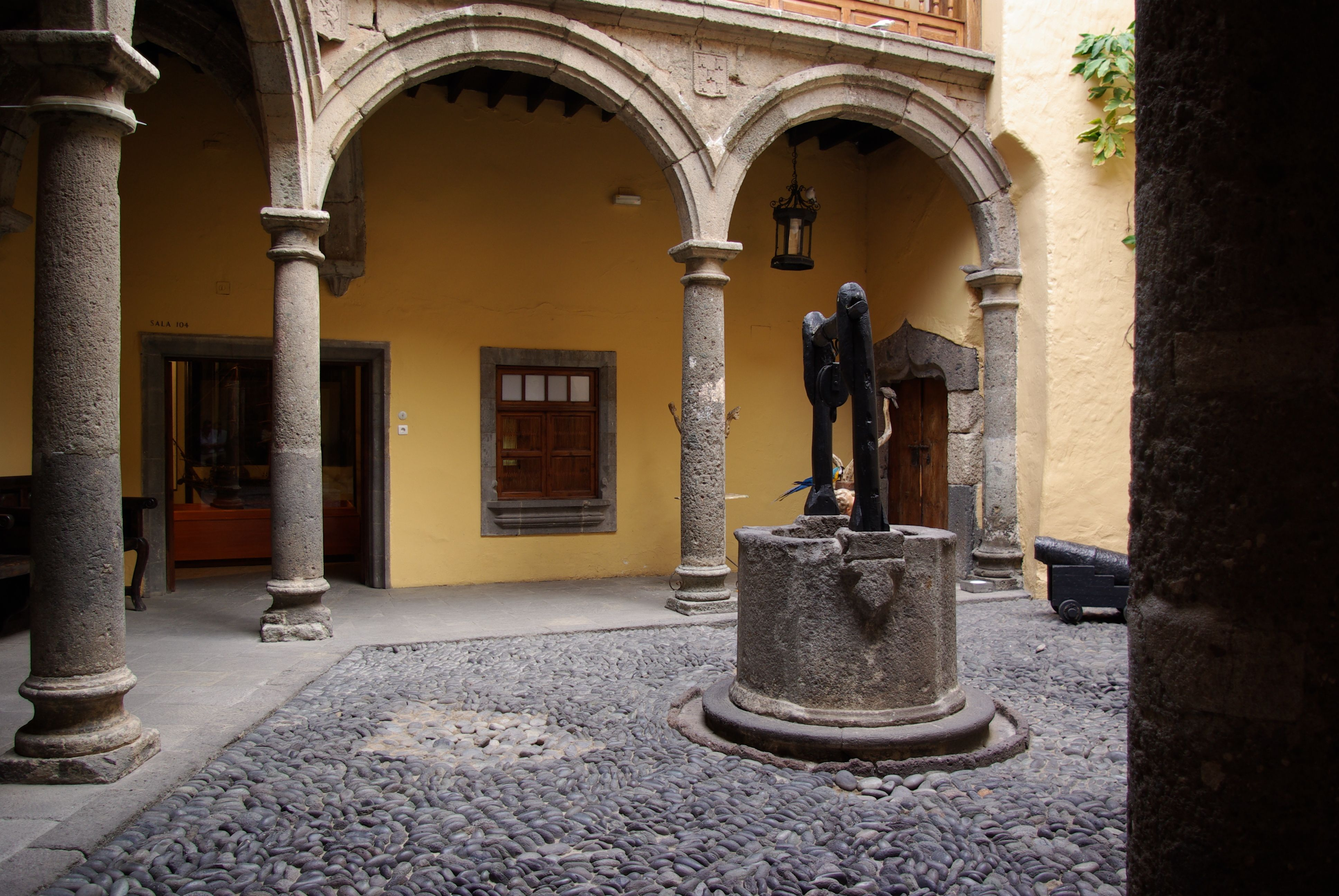 Las Palmas de Canaria, der Innenhof des Cas de Colon (Kolumbushaus), Geotag in Exif-Daten